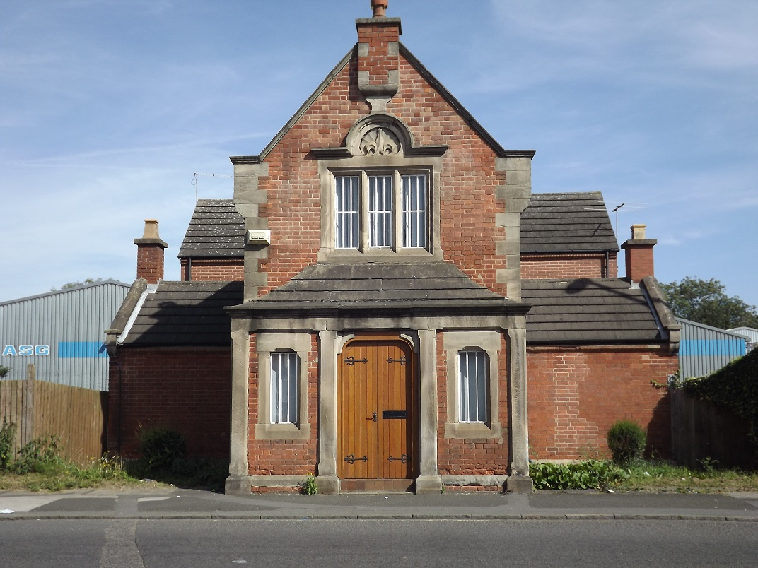 Former toll house, 997 London Road, Alvaston.